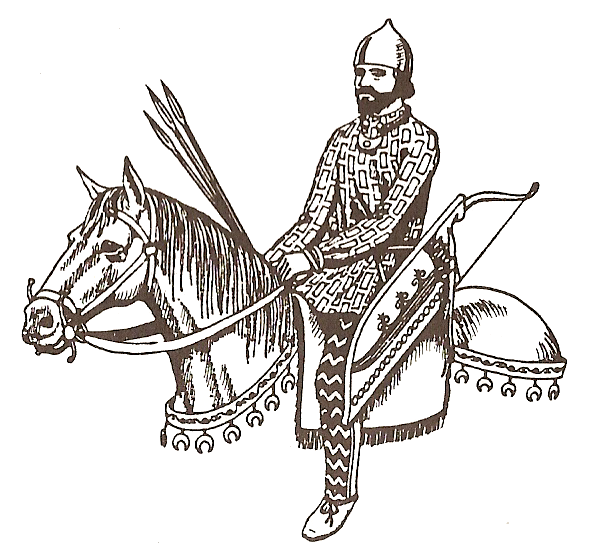 Original description: noble Persian horseman.